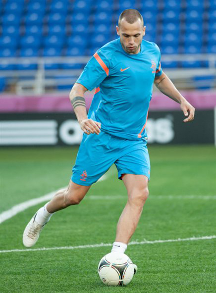 John Heitinga